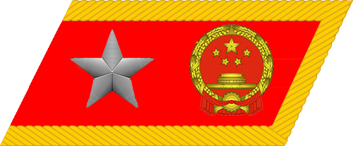 Marshal of the PRC collar insignia